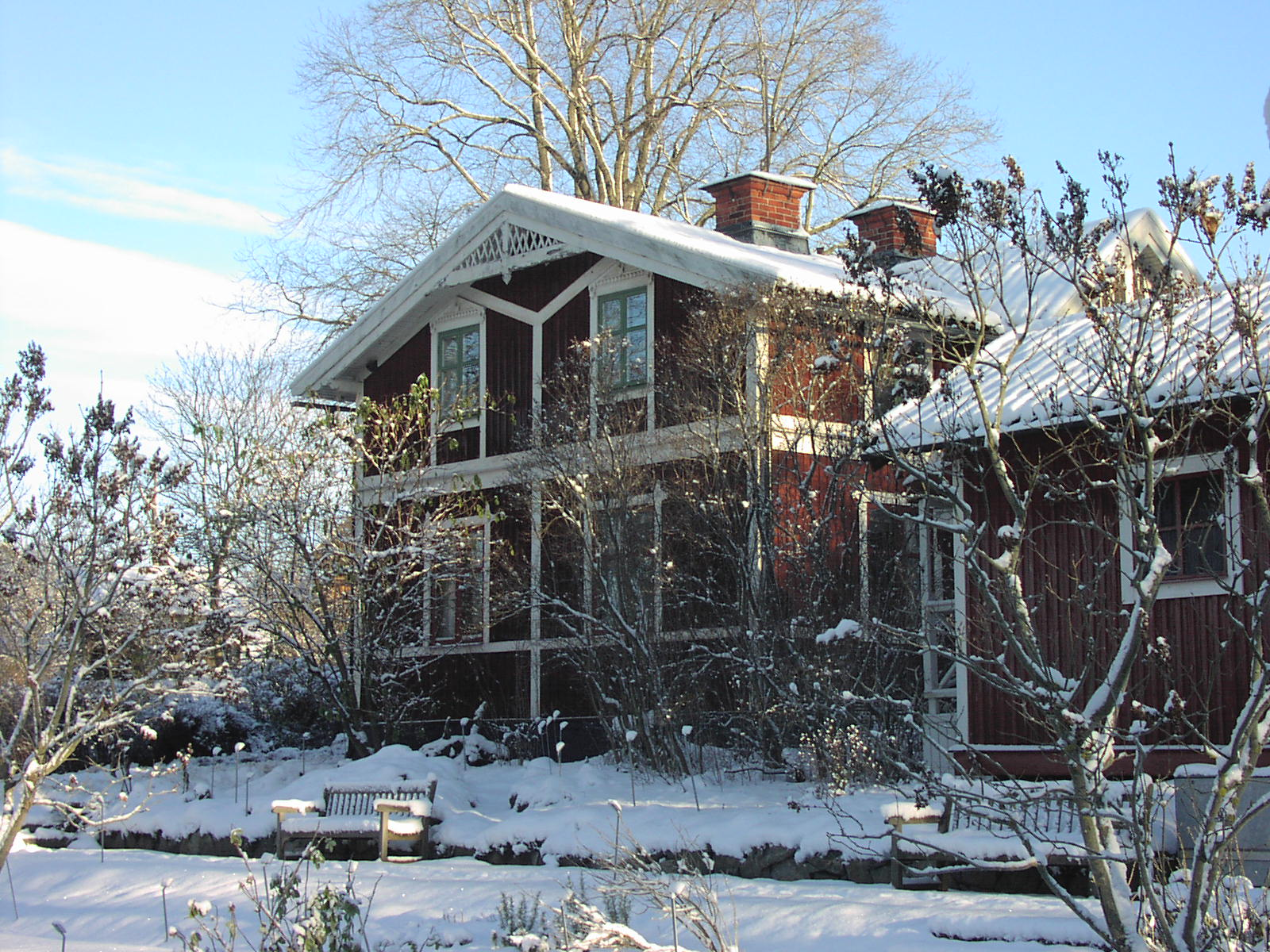 Skansen is a park in the Djurgården where a typical Swedish village from two hundred years ago has been recreated. "Vakstugan", built in the 1880s as a dwelling for caretakers and gardeners.A typical house in Skansen